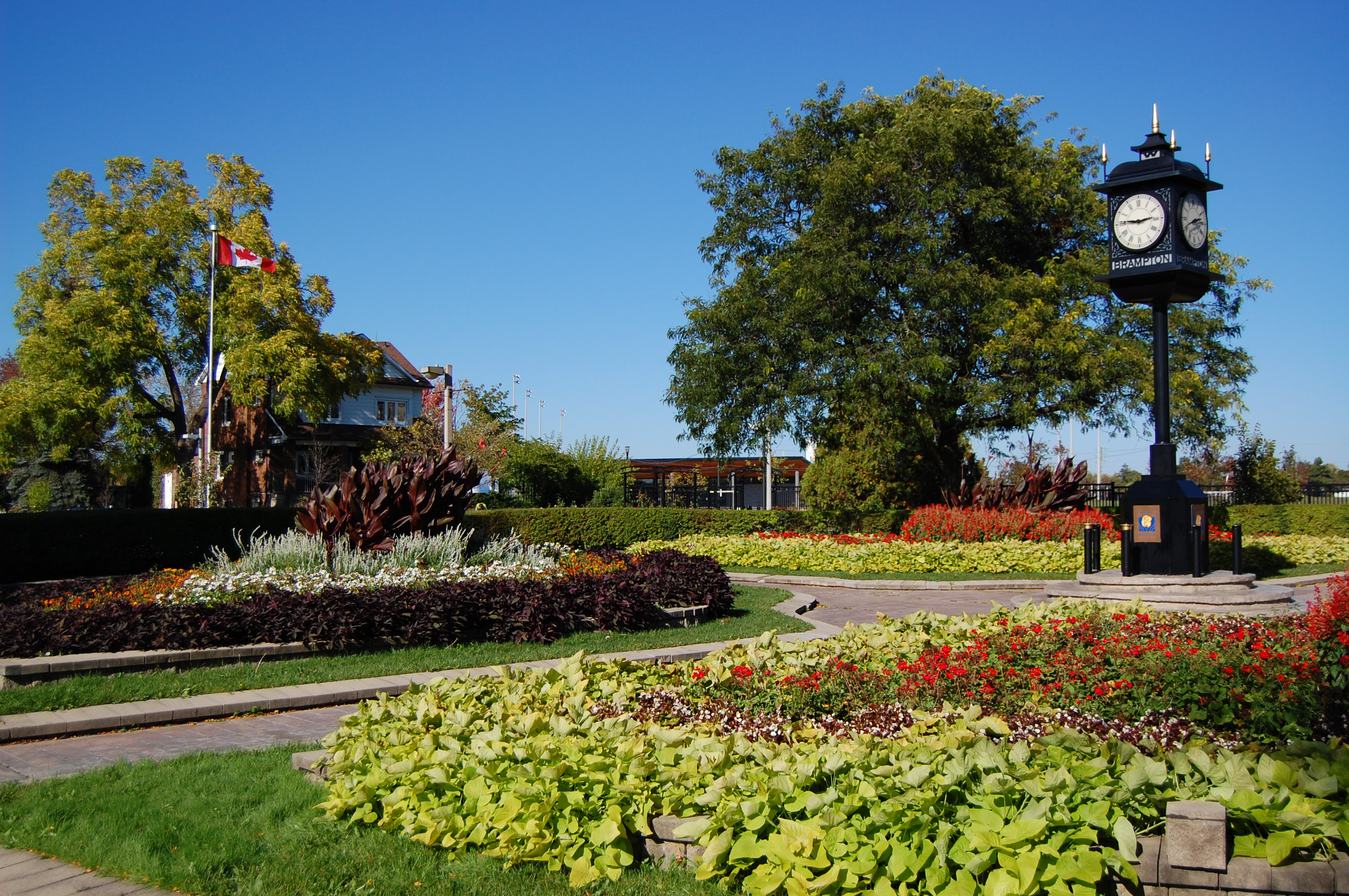 Chinguacousy Park